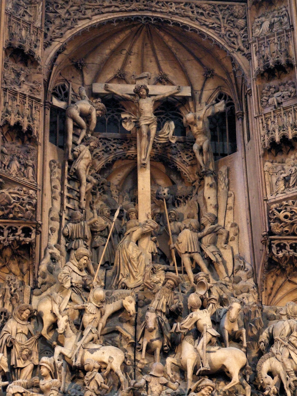 Hochaltar. Sankt Nicolai, Kalkar, Nordrhein-Westfalen High altar - Altars of the Crucifixion of Christ - Detail. Church of Saint Nicholas, Kalkar, in North Rhine-Westphalia, Germany